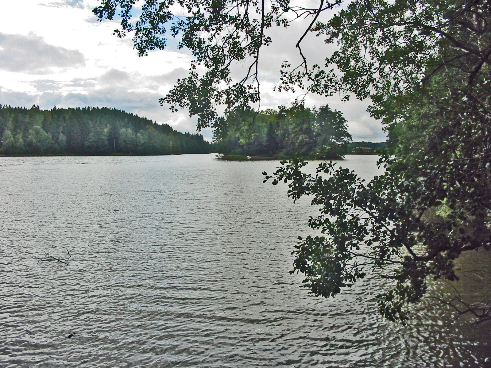 Kertunsalo island in lake Rautelanjärvi, Somero, Finland